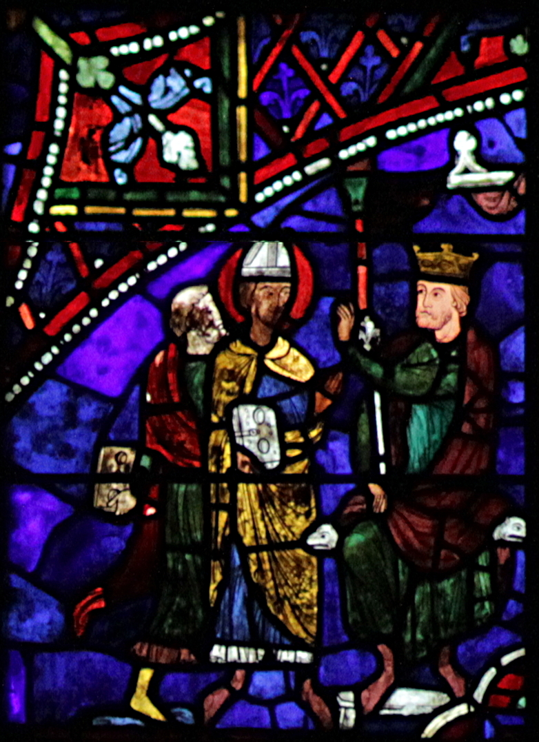 Fragment of File:Chartres 36 -Corrected.jpg - Life of St Apollinaris